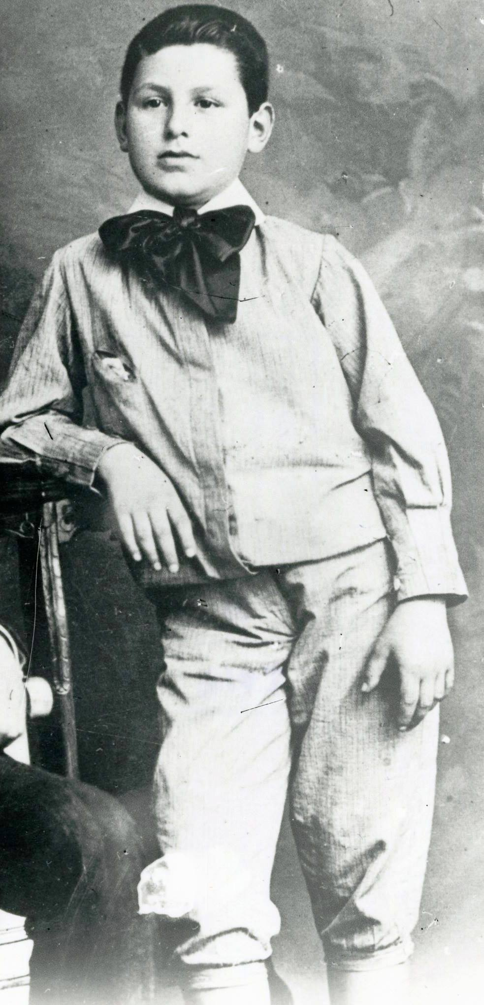 Former President of Argentina and political leader Juan Domingo Perón when a child.